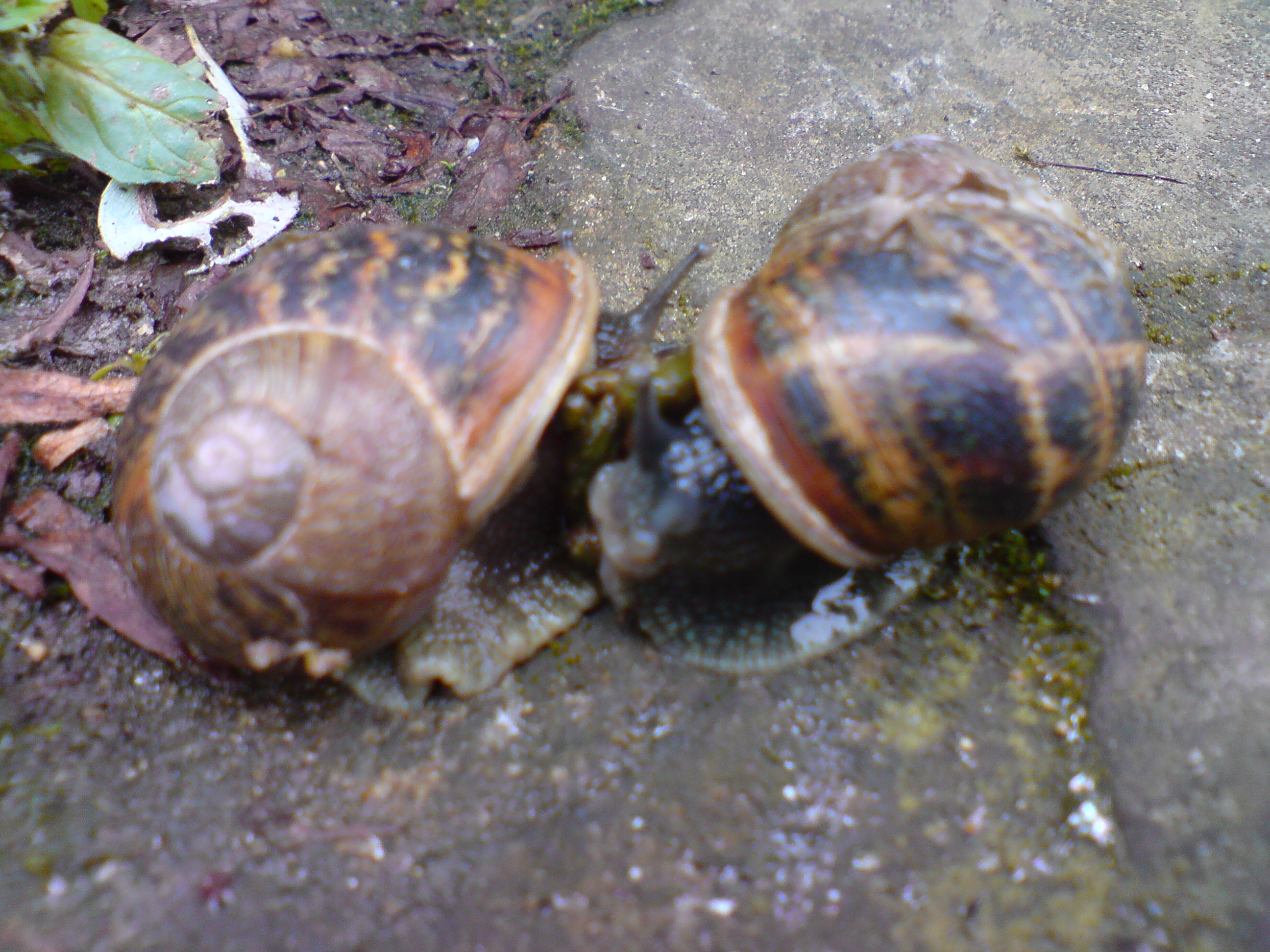 A couple of Helix aspersa in Richmond Park, London, England.